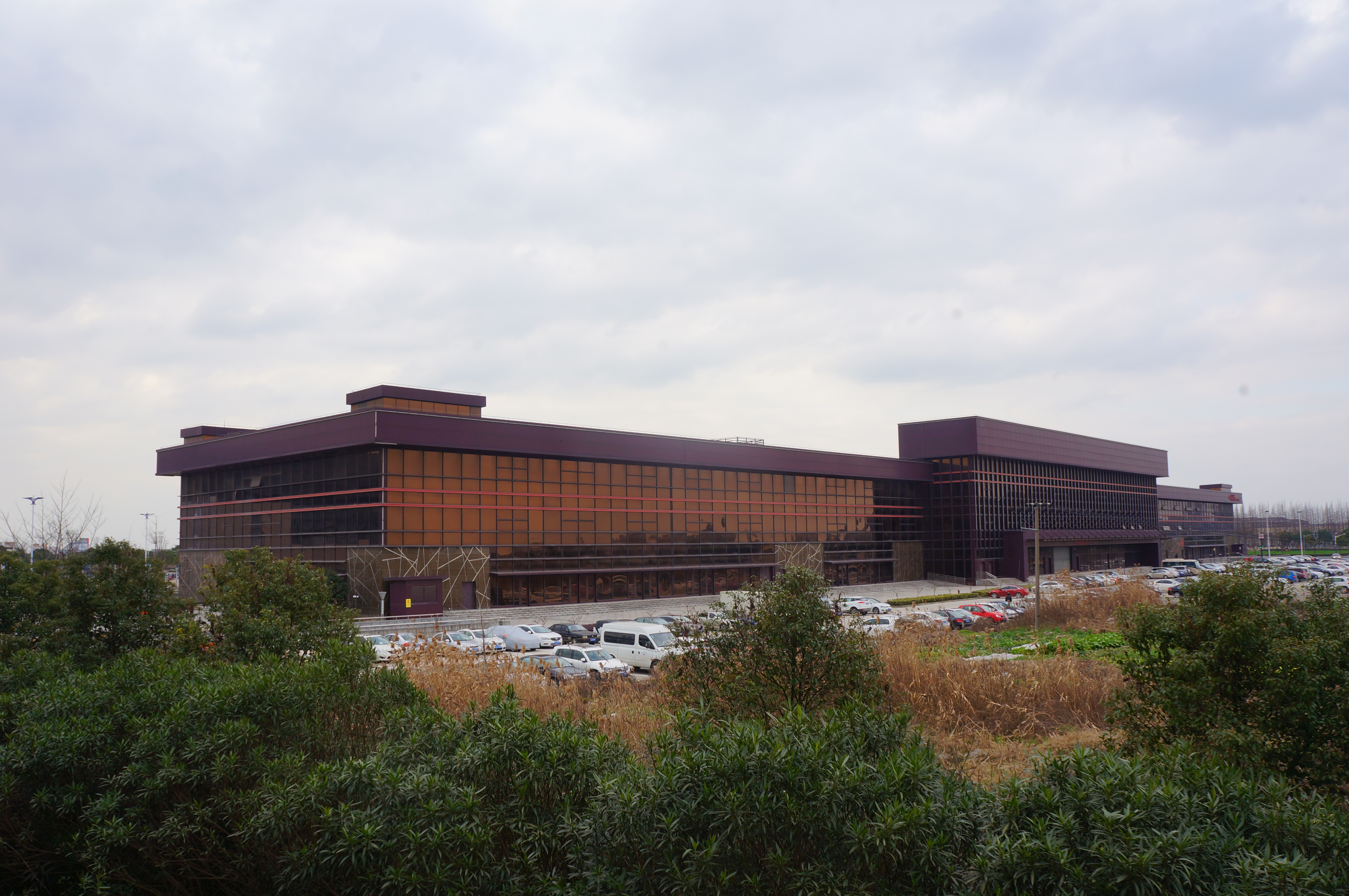 201701 Metro Songjiang South Railway Station